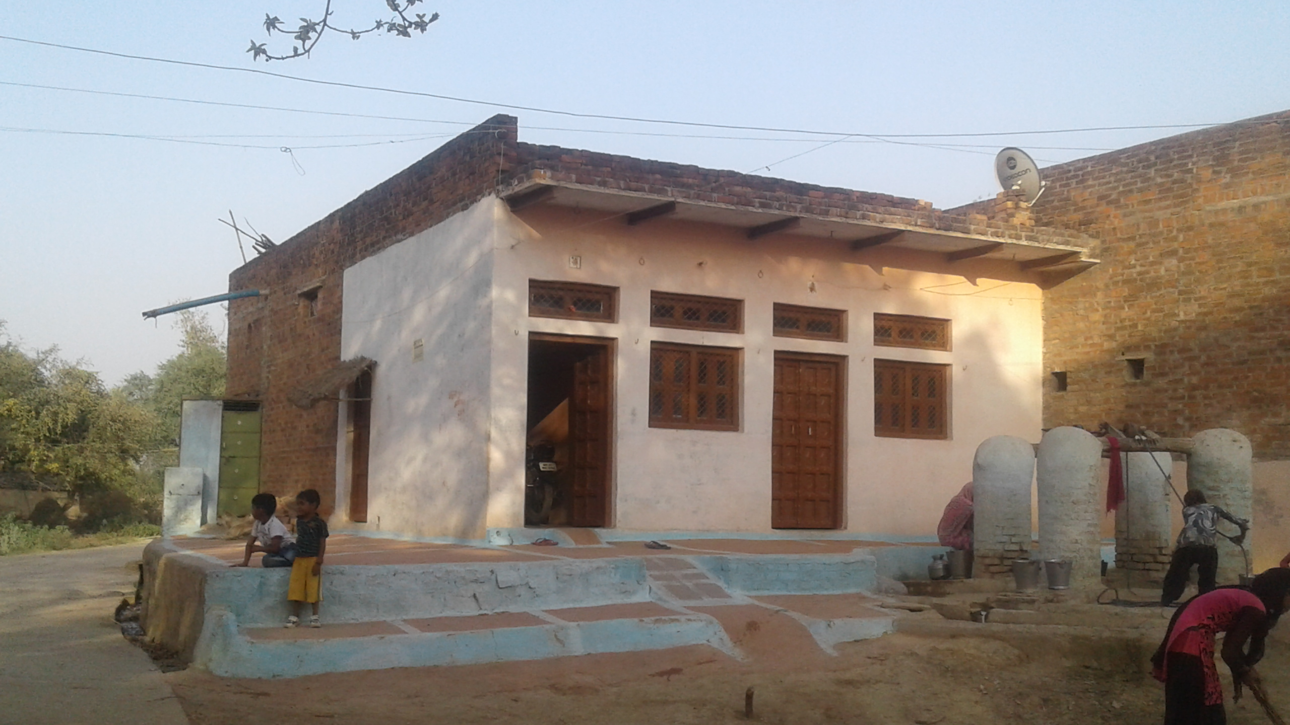 Kanhai Ka Pura Village Home